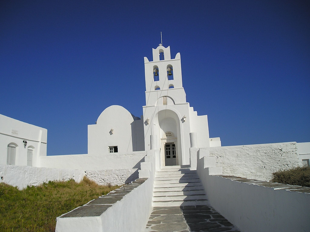 Church of Chryssopigí monastery Sifnos Cyclades